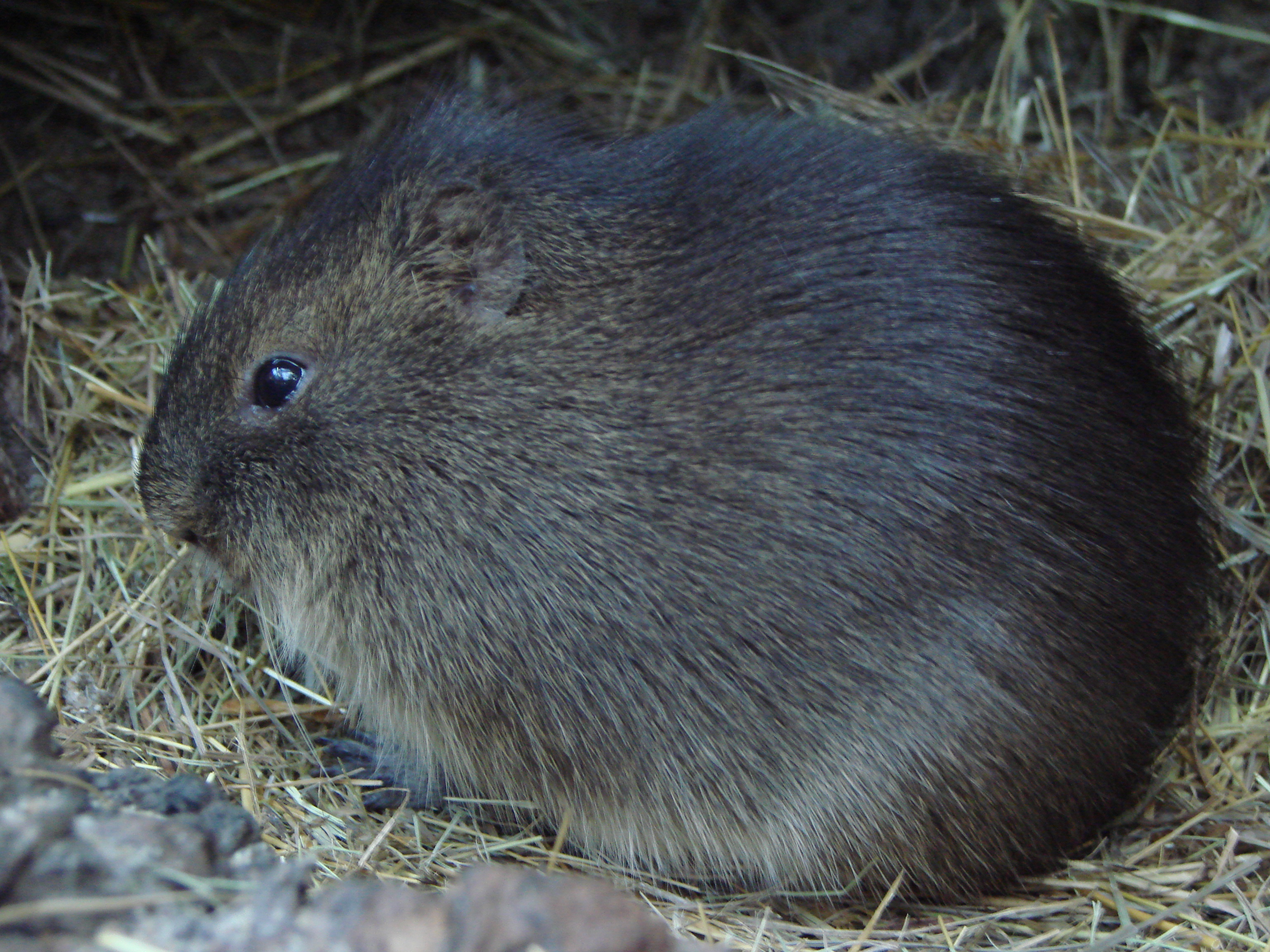 Animal species: Greater Guinea Pig (Wrocław zoo)